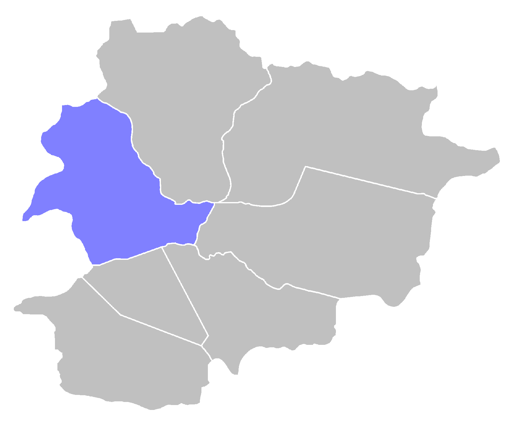 Map of the parish of La Massana in the west of Andorra.